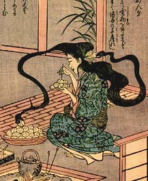 Ukiyo-e image of a Futakuchi-onna Found at